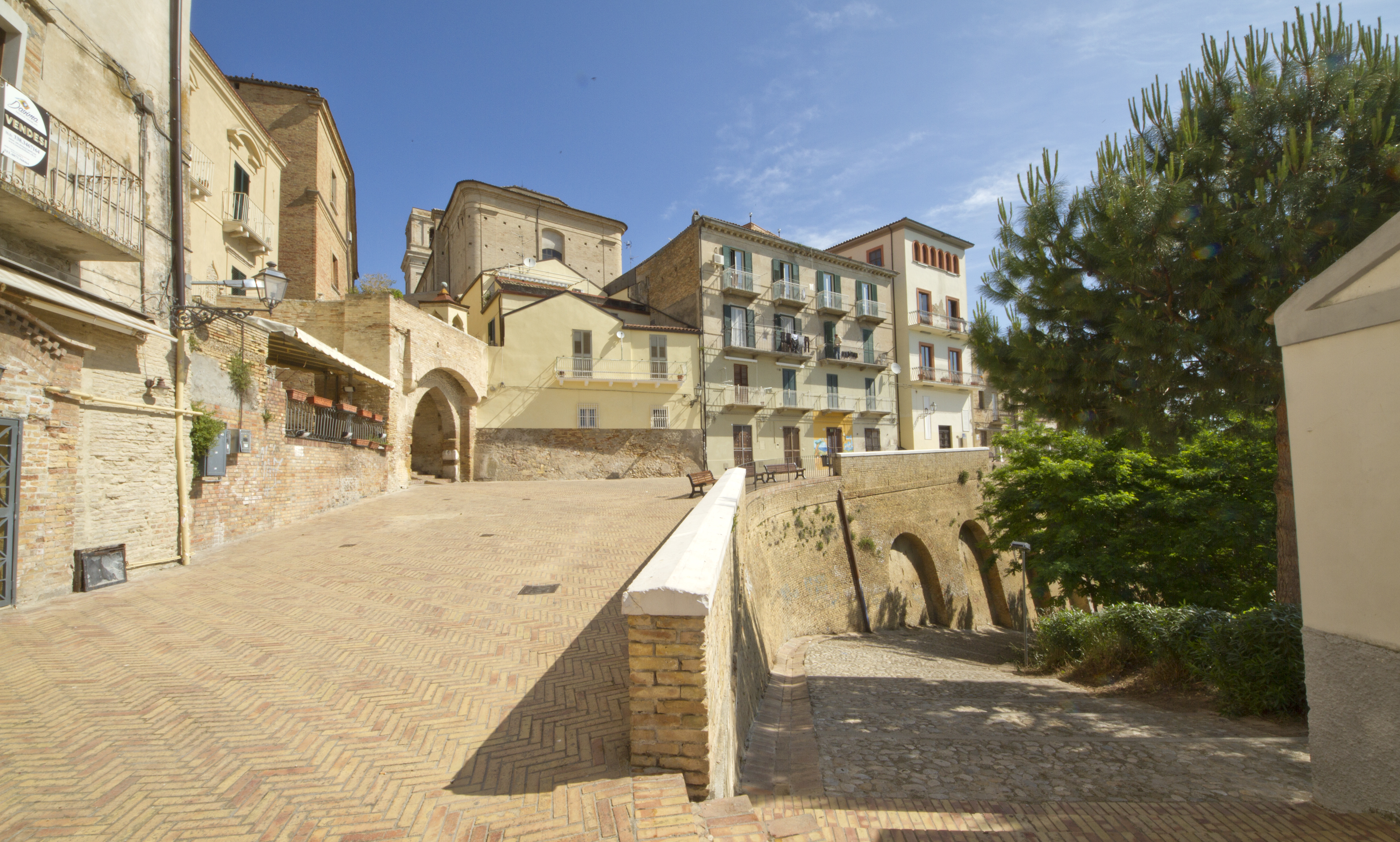 66054 Vasto, Province of Chieti, Italy